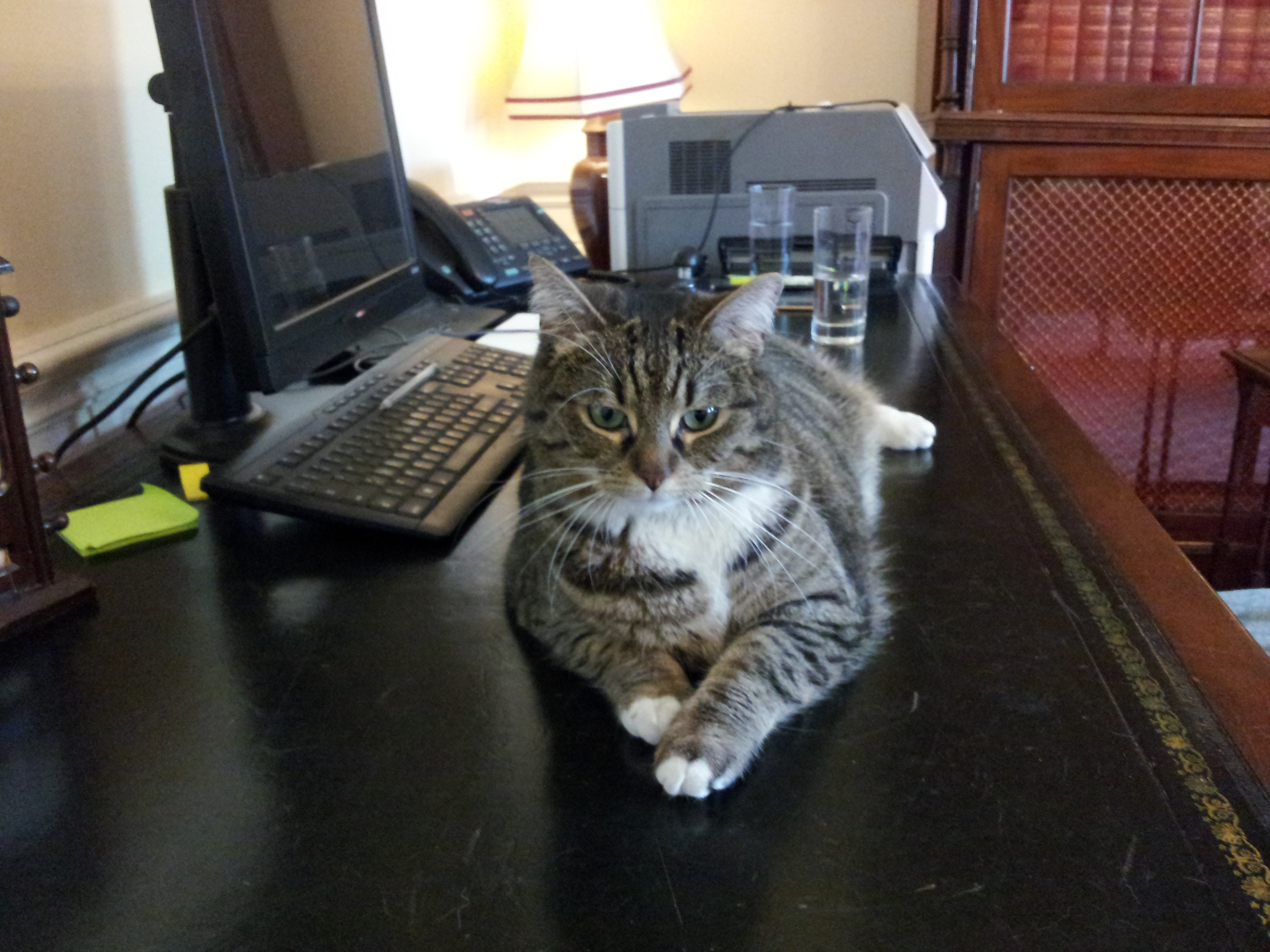 Freya, chief mouser and tabby cat